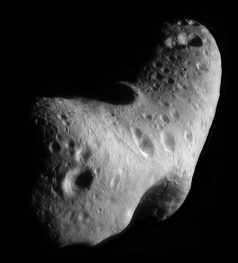 While NEAR Shoemaker orbits Eros, the asteroid appears too large for the camera's field of view. In order to get a complete view of the surface from a particular vantage point, several images are mosaiced. To do this, the digital images returned by the spacecraft are draped over a computer model of the asteroid's shape. This spectacular view -- looking down on the north polar region -- was constructed from six images taken February 29, 2000, from an orbital altitude of about 200 kilometers (124 miles). This vantage point highlights the major physiographic features of the northern hemisphere: the saddle seen at the bottom; the 5.3-kilometer (3.3-mile) diameter crater at the top; and a major ridge system running between the two features that spans at least one-third of the asteroid's circumference. Built and managed by The Johns Hopkins University Applied Physics Laboratory, Laurel, Maryland, NEAR was the first spacecraft launched in NASA's Discovery Program of low-cost, small-scale planetary missions. See the NEAR web page at for more details.